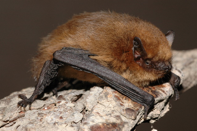 Pipistrellus pygmaeus, Psow river valley, Nizhnyaya Shilovka, Sochi district, Krasnodarskiy Kray, Russia